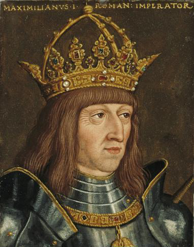 Maximilian I of Austria